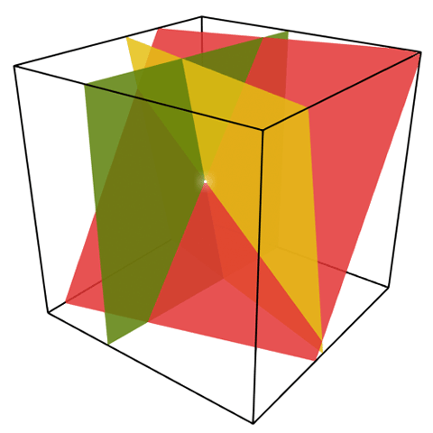 3 planes intersect at a point part 2 of three illustrating secret sharing this version has added emphasis of the pointcreated in LightWave by stib